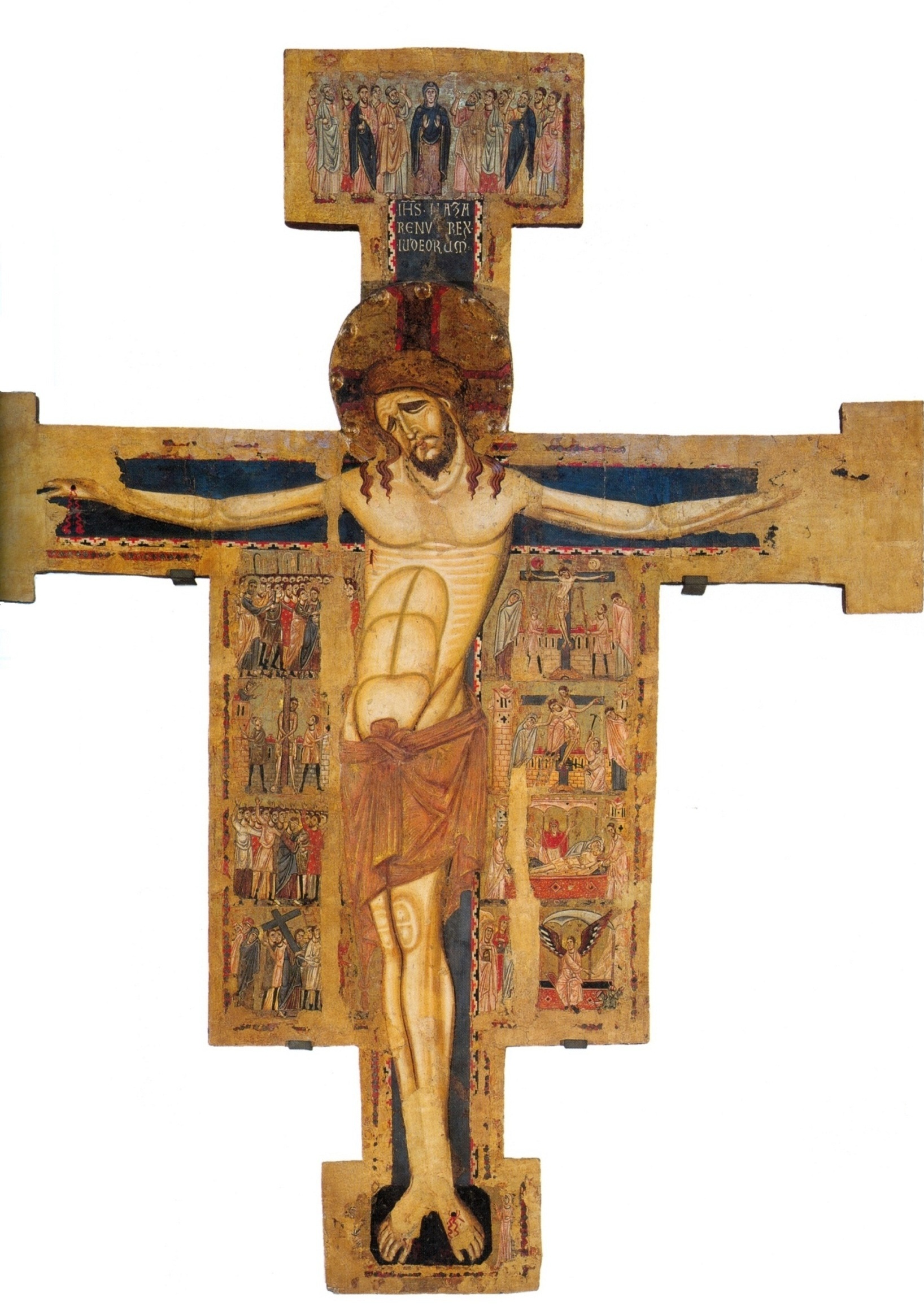 Cross painting on wooden table